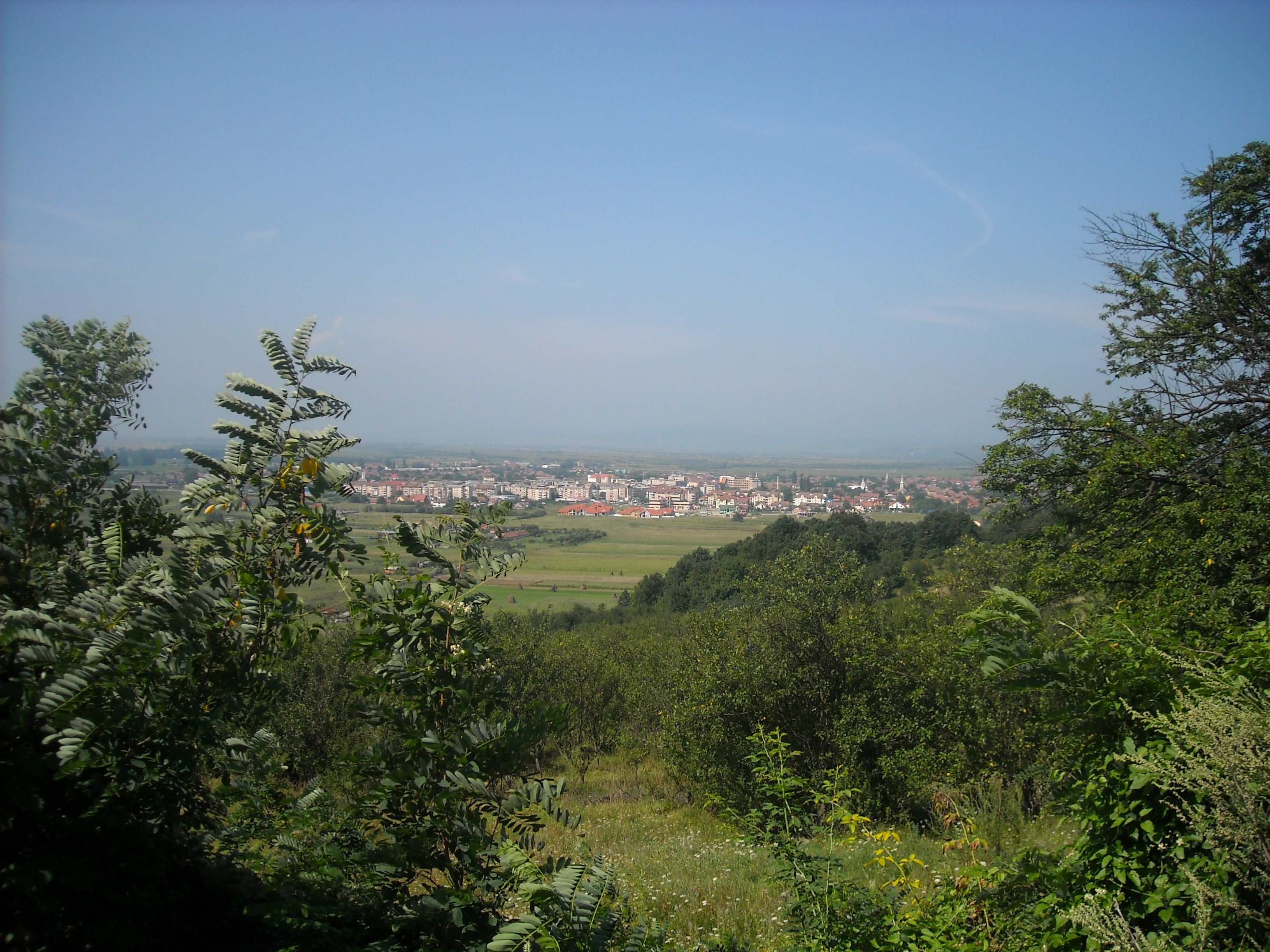 landscape of the town of Haţeg in Romania